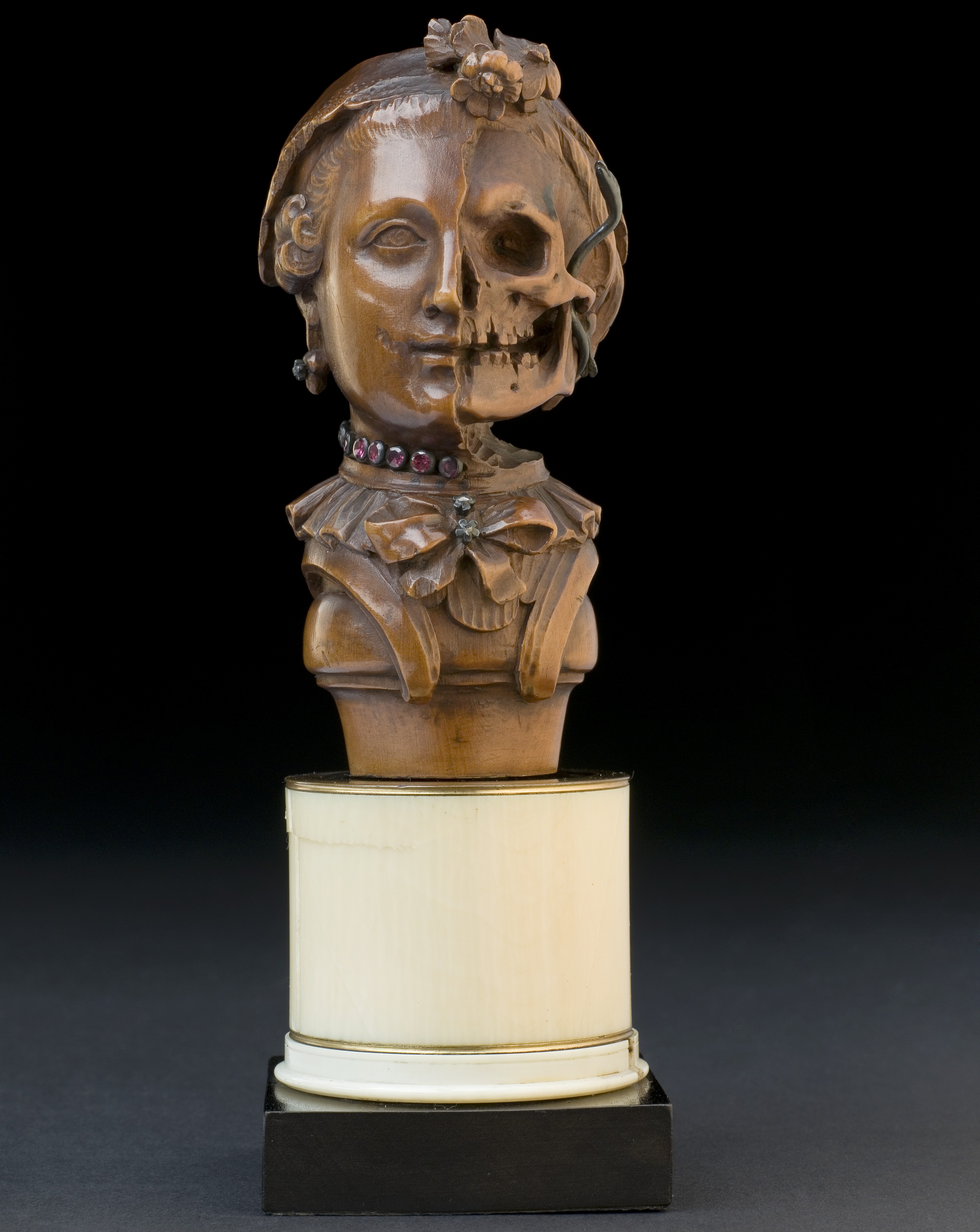 Wooden memento mori showing a woman with half a head and half a skull, Italy, 1801-1900 Carved from wood, this statue shows a woman with half of her head intact and the other half with a bare skull. This type of figure is known as a memento mori – literally a reminder of death, used to prompt people about the shortness of life and the inevitability of death. A skull was used to represent death from the 1500s onwards, replacing the older image of a skeleton leading a living person to their fate. Medical Photographic Library